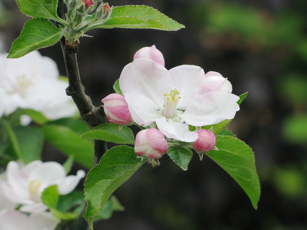 Gloster in blossom